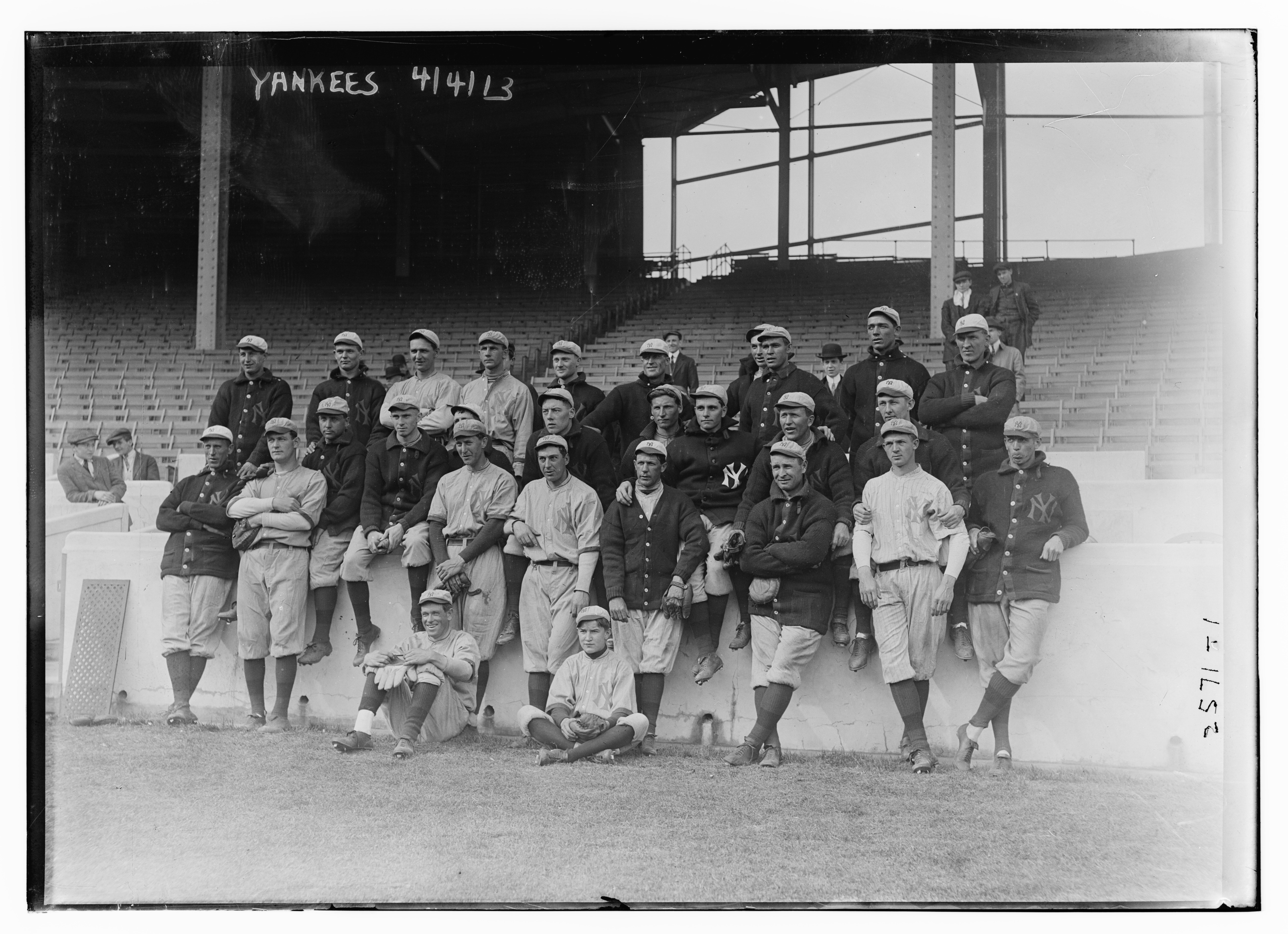 The New York Yankees team posing for the camera. From the Bain News Service collection, LOC.